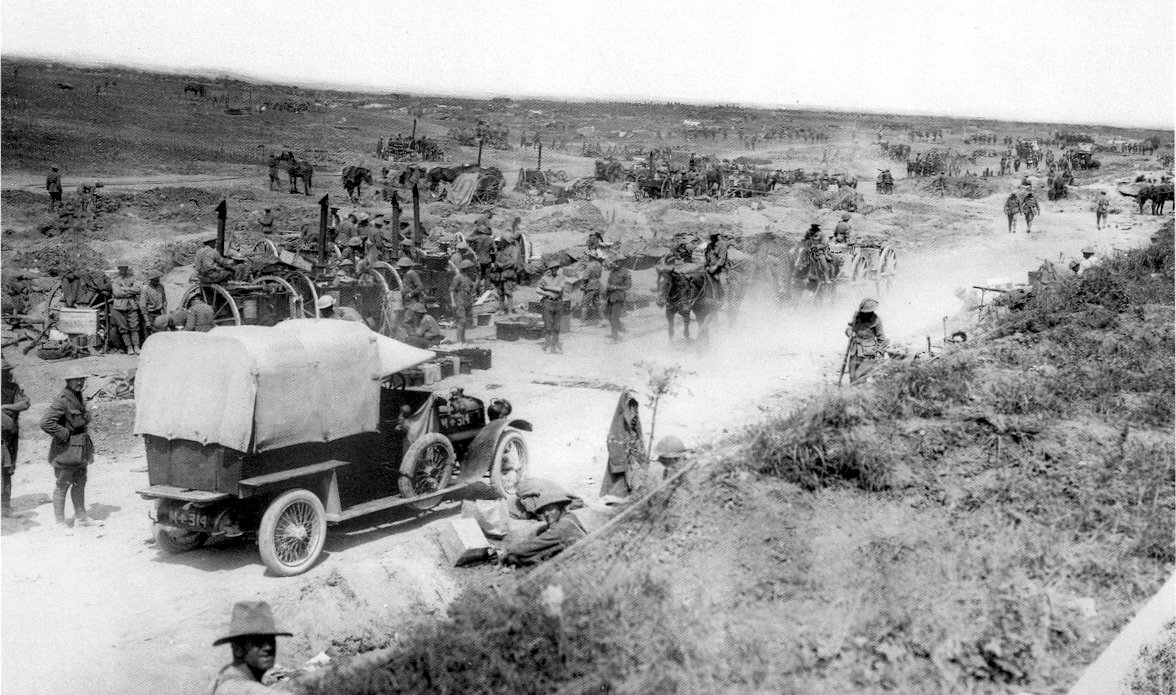 Photograph showing a scene in Sausage Valley near Contalmaison, 28 August 1916, during the Battle of the Somme. Sausage Valley was the main route to the front line during the fighting around Pozières. The truck is a Rolls-Royce Phantom and on the far side of the road are field kitchens.